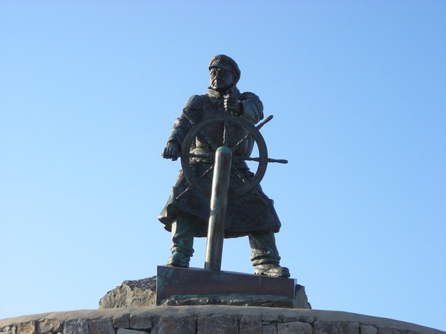 Another view of Richard Evans statue at Moelfre.